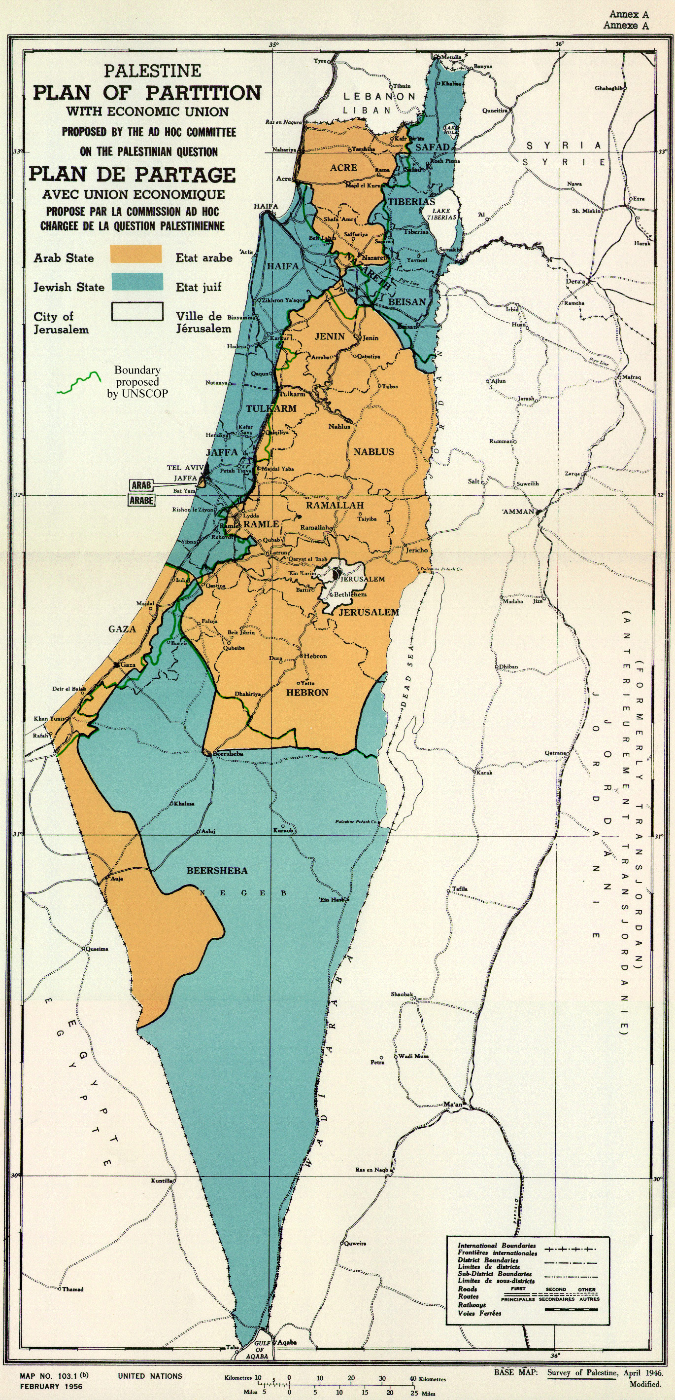 February 1956 Map of UN Partition Plan for Palestine, adopted 29 Nov 1947, with boundary of previous UNSCOP partition plan added in green.